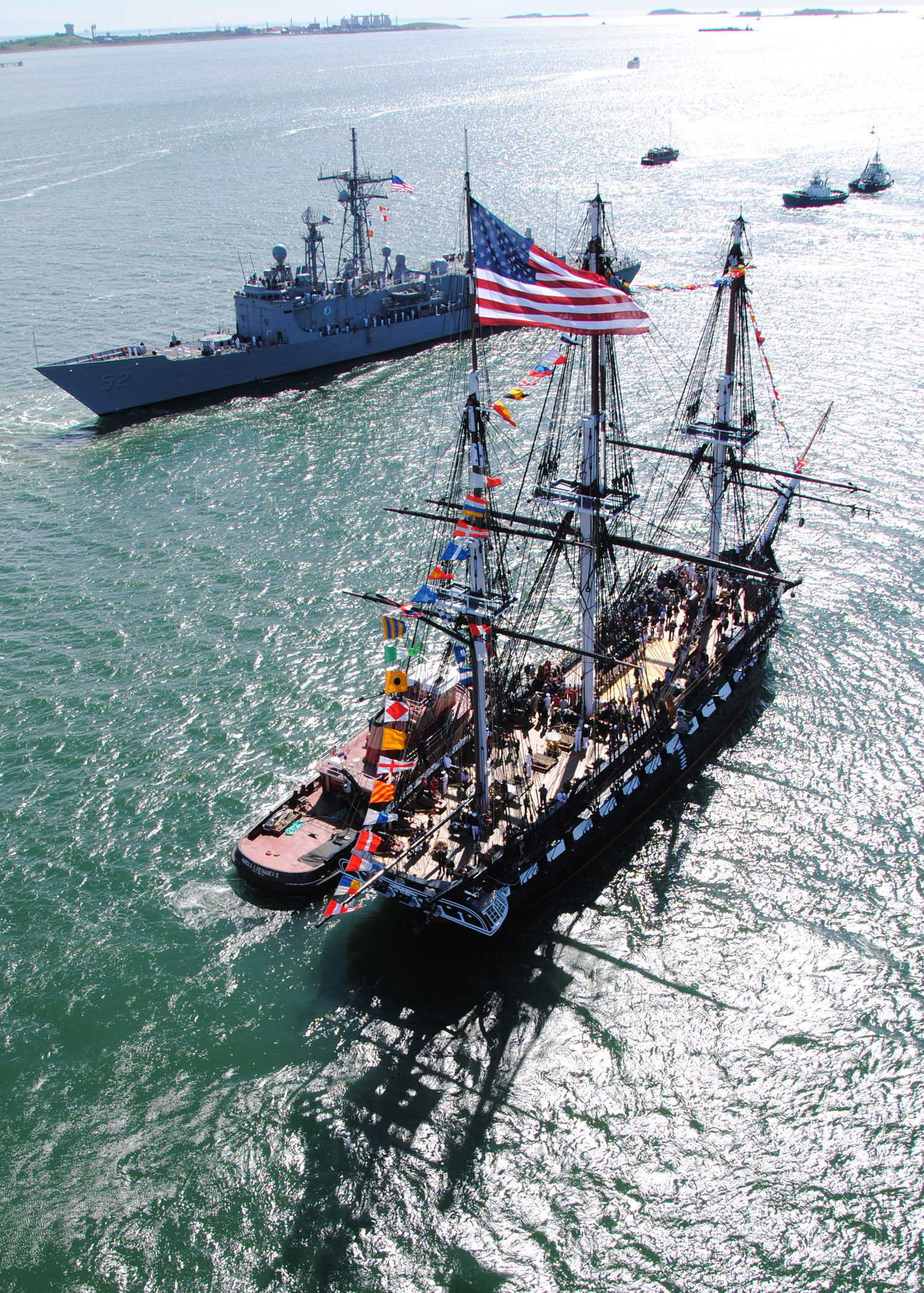 The USS Constitution greets the guided-missile frigate USS Carr (FFG 52) in Boston Harbor during an underway Battle of Midway commemoration on June 3, 2011. The underway honored approximately 200 members of Gold Star Families who lost loved ones in Operations Enduring and Iraqi Freedom and remembered the Navy's victory at Midway Island in World War II.